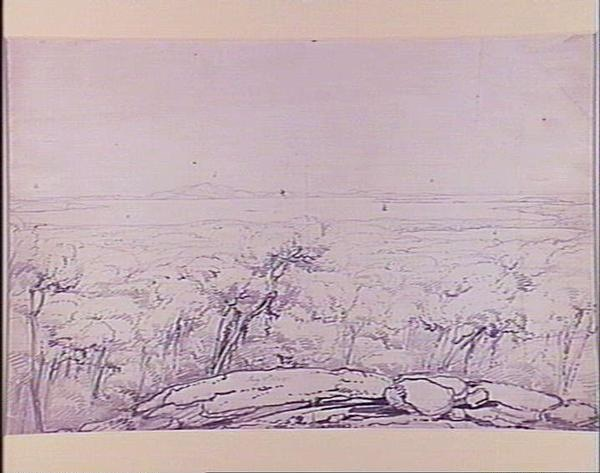 A drawing from the Westall collection with the title "Middle Island, view north to Cape Arid". The source notes the inscription "Goose Island Bay, south coast." with the image and the location as Middle Island (Archipelago of the Recherche) and Goose Island Bay which is on the southern coast of Australia.